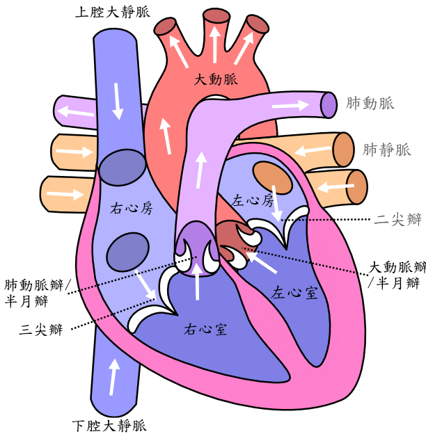 Diagram of the human heart